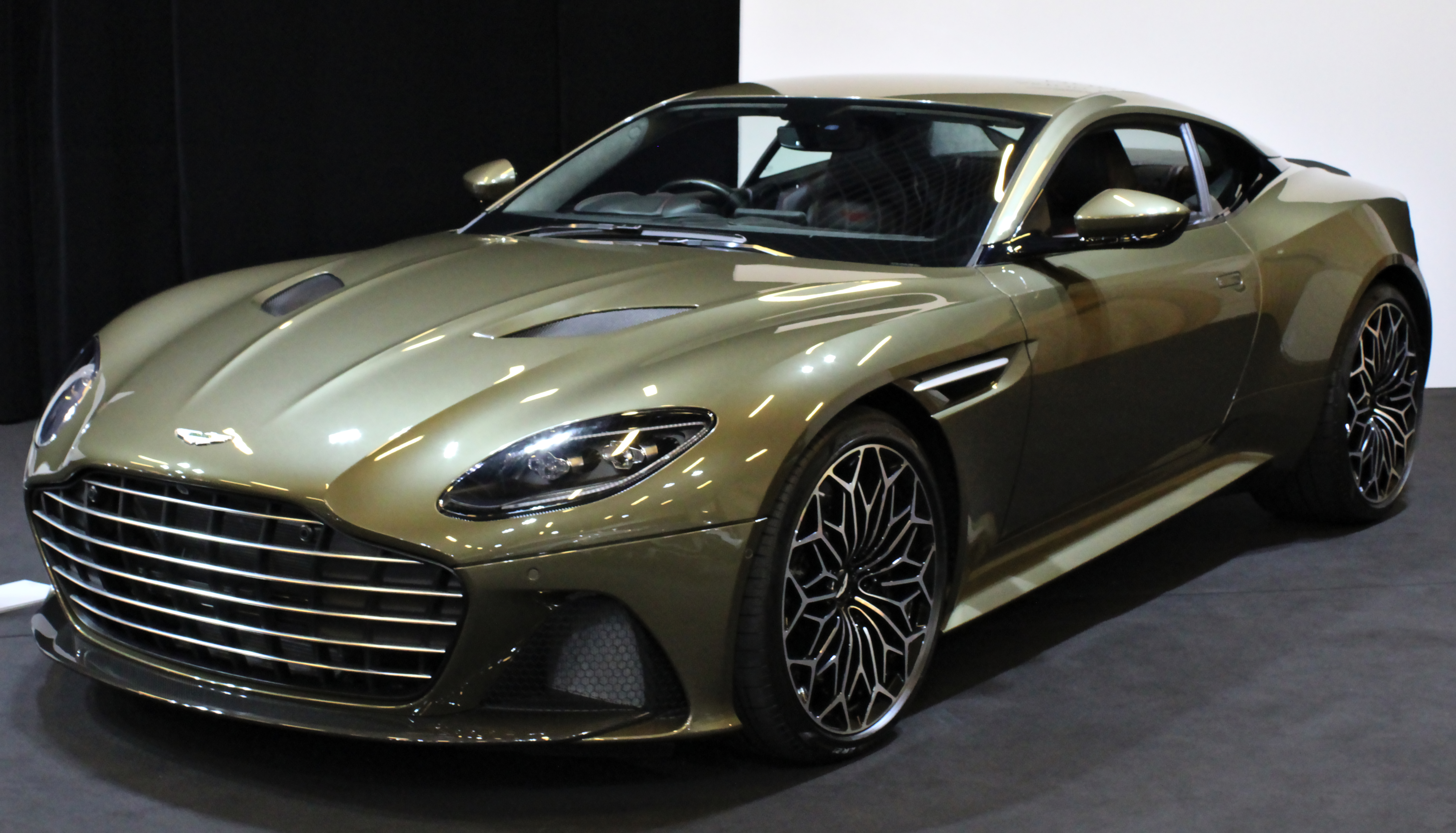 Aston Martin DBS Superleggera OHMSS at Top Marques 2019